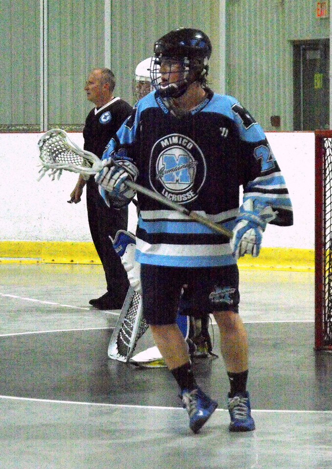 These images of Ontario Junior B Lacrosse Action action during the 2014 season are taken by Devan Mighton.